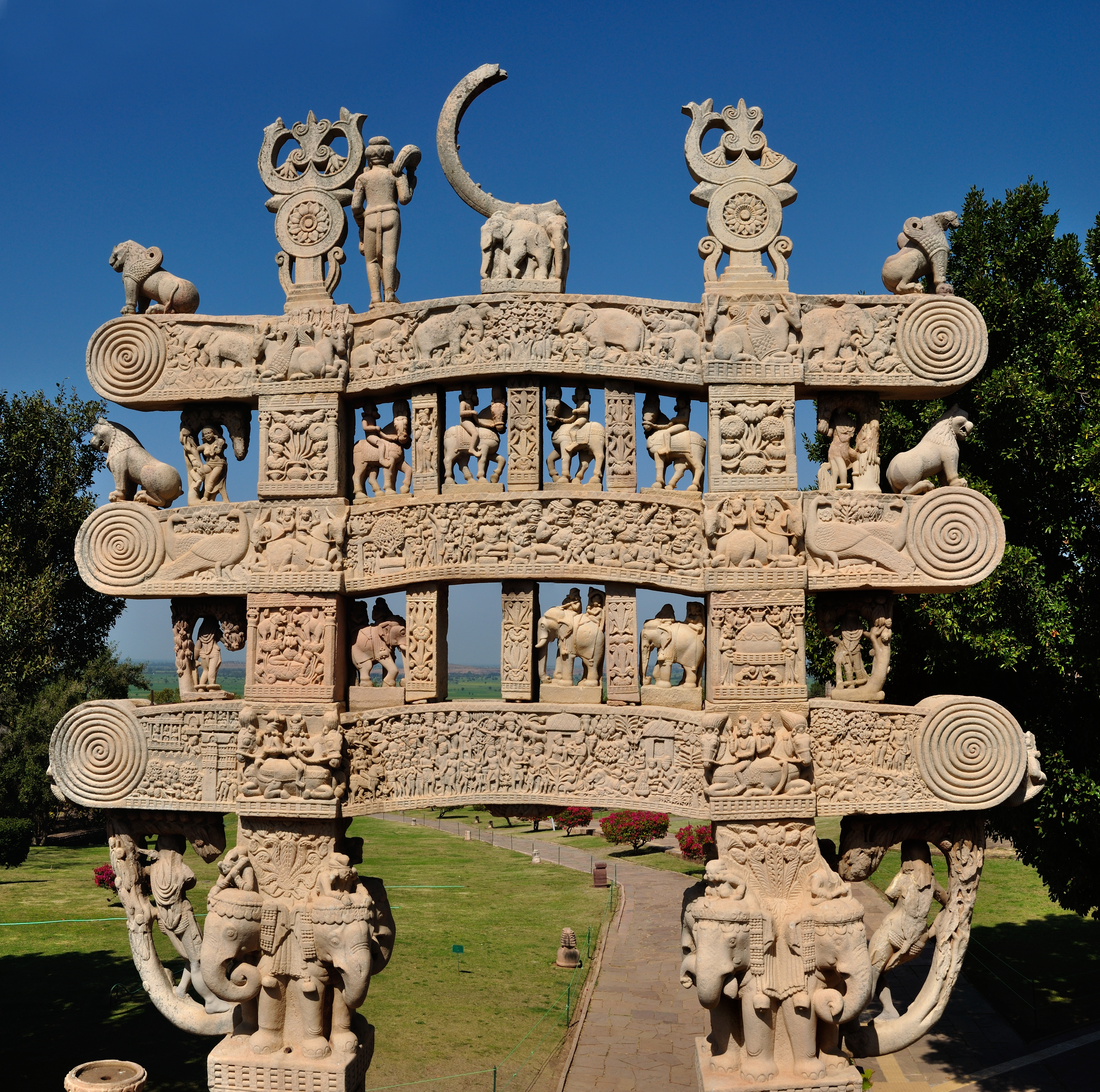 Buddhist monument at the Sanchi Hill, Raisen district of the state of Madhya Pradesh, India. Torana North. The story of Bodhisattva Vessantara is one of selfless generosity – He gives up all his riches, his kingdom and children and finally his wife. In the back side of the row, the story continues – finally the Gods relent on seeing Vasantara’s sacrifice and the family is reunited.